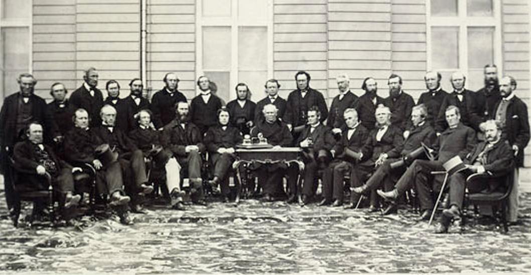 International Convention at Quebec of Delegates of the Legislatures of Canada: Nova Scotia, New Brunswick, Prince Edward Island and Newfoundland, October 27, 1864, Quebec City, Canada East